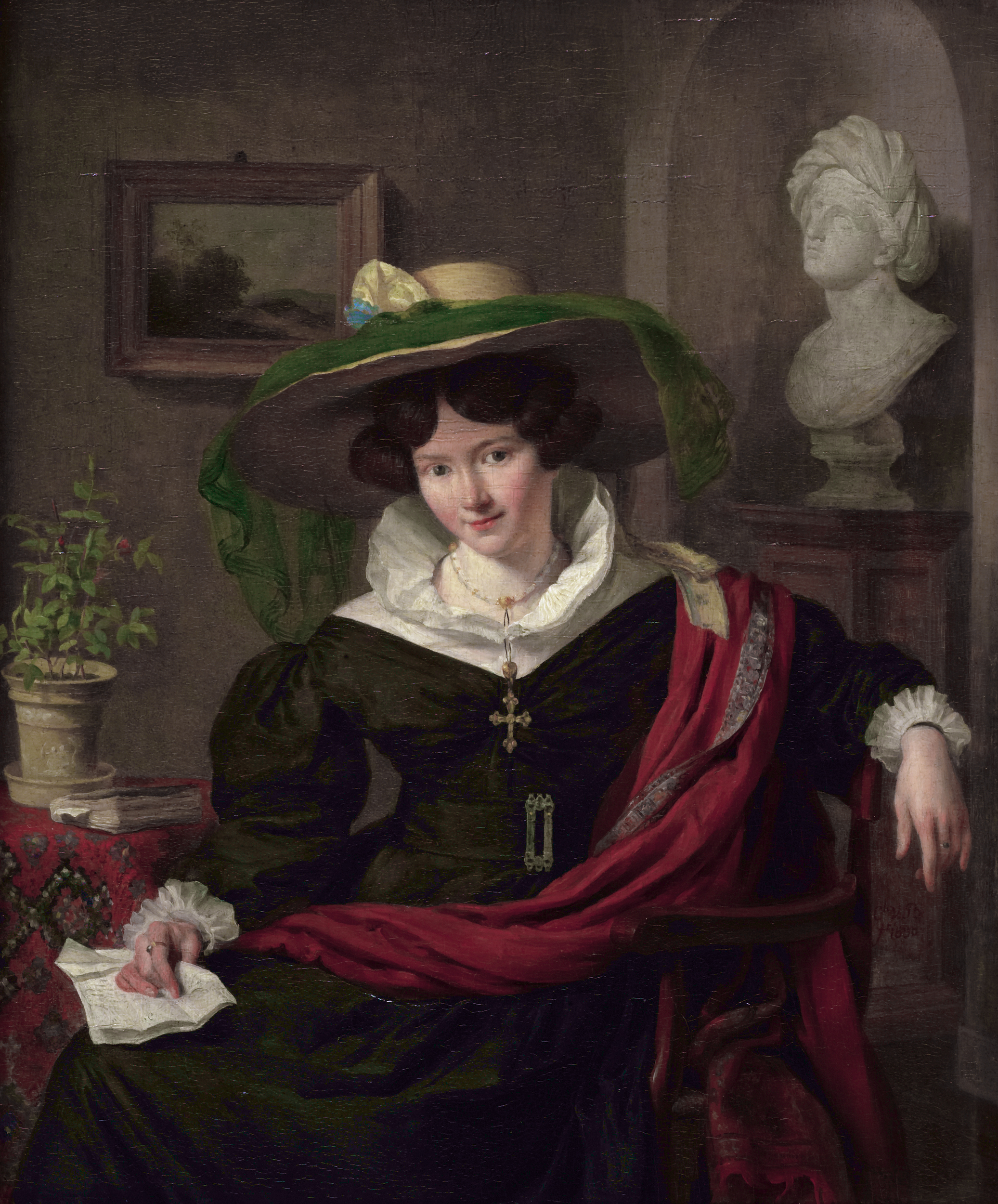 Portrait of Carolina Frederica Kerst, wife of Dutch sculptor Louis Royer; Pendant of File:Louis Royer par Charles van Beveren.jpeg